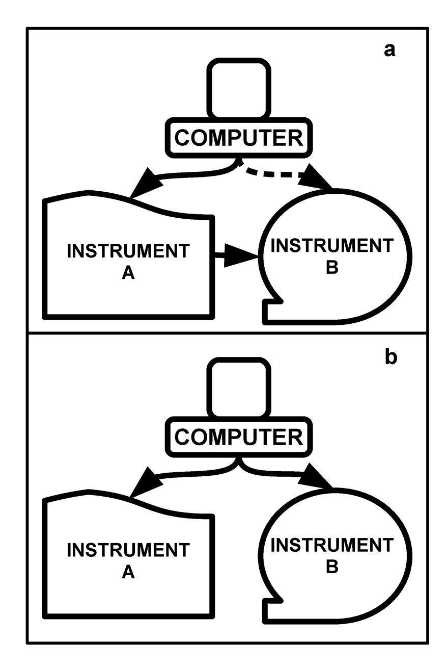 Fig. 1: Schematic description of: a, the usual configuration for the integration between two instruments controlled by a computer; b, a possible configuration when using scripting to integrate two instruments. The dashed line in a indicates that the computer control of instrument B is optional, while the continuous lines indicate necessary control between two components.